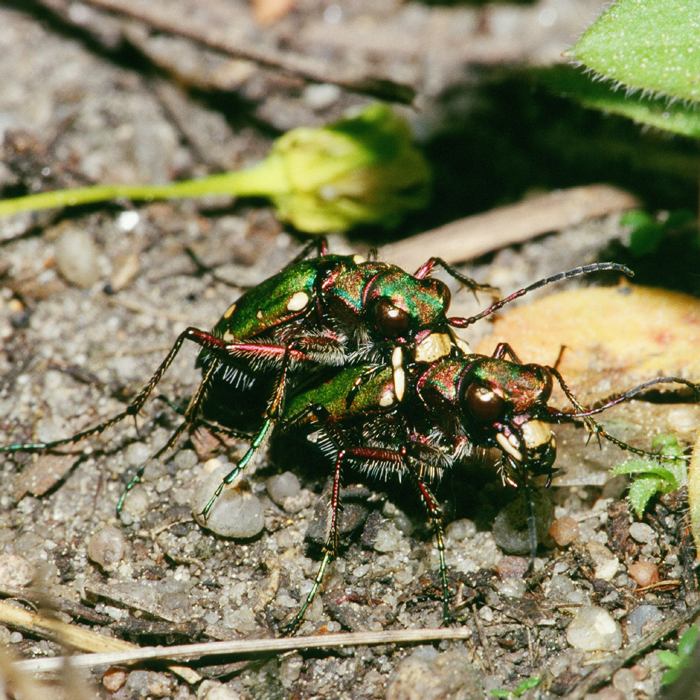 Cicindela campestris mating